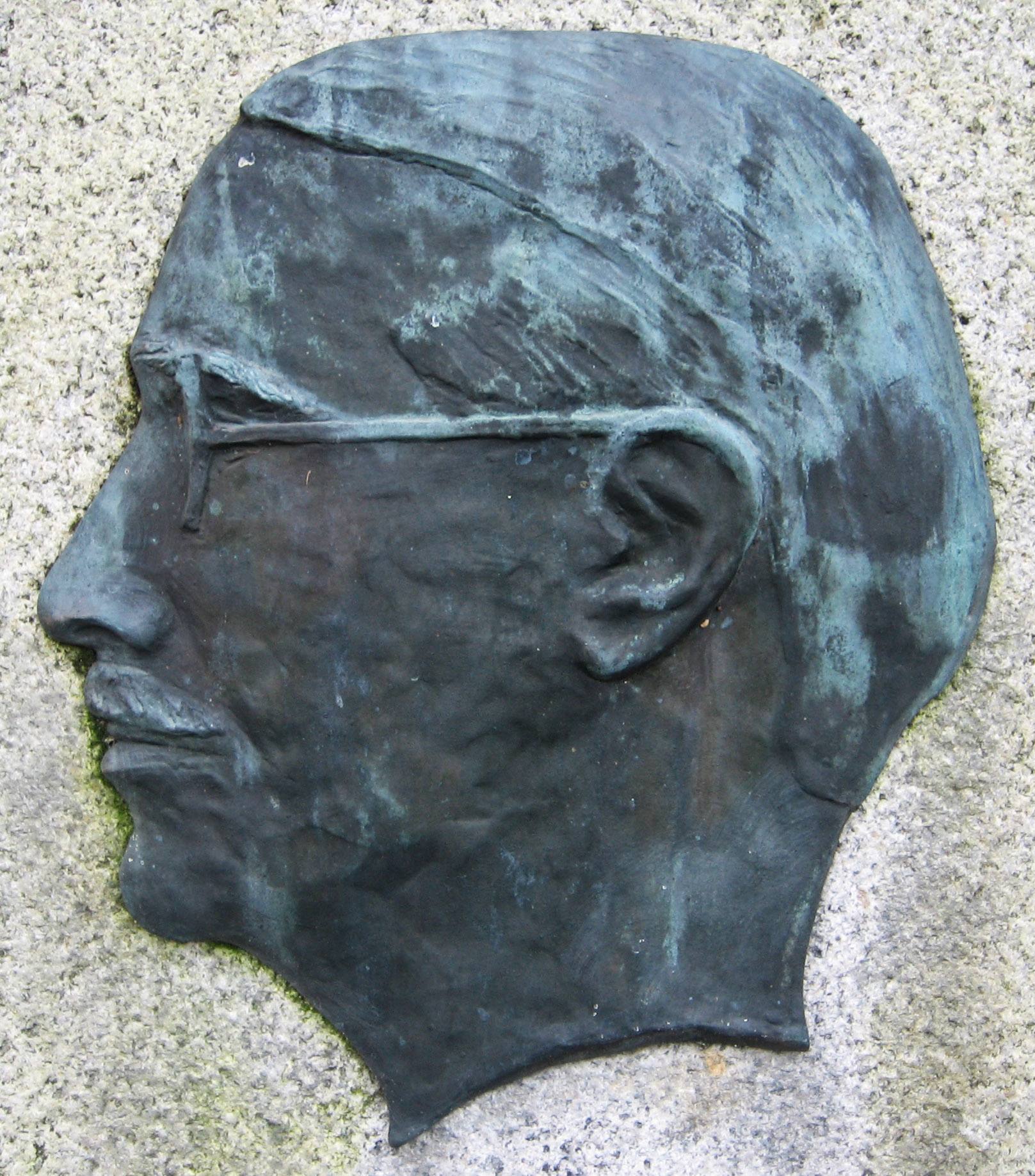 Portrait relief from the grave of swedish author Frank Heller (Gunnar Serner 1886-1947), made by Sigurd "Sigge" Berggren and presented 11 november 1950. Photo taken at Norra kyrkogården, Lund, Sweden, 090111 by the uploader.